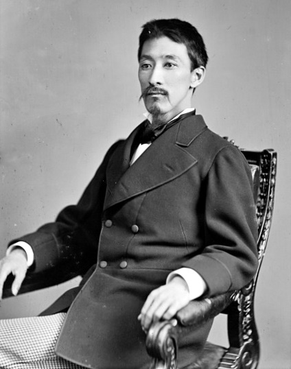 Jirō Yano, the first president of the Higher Commercial School (later renamed as the Tokyo Higher Commercial School that is the predecessor of the Tokyo University of Commerce, the current Hitotsubashi University)